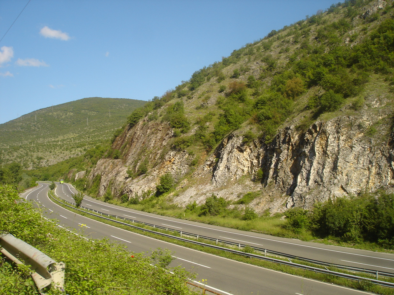 Highway Skopje - Tetovo ("Mother Teresa") in Karpalak gorge, Macedonia